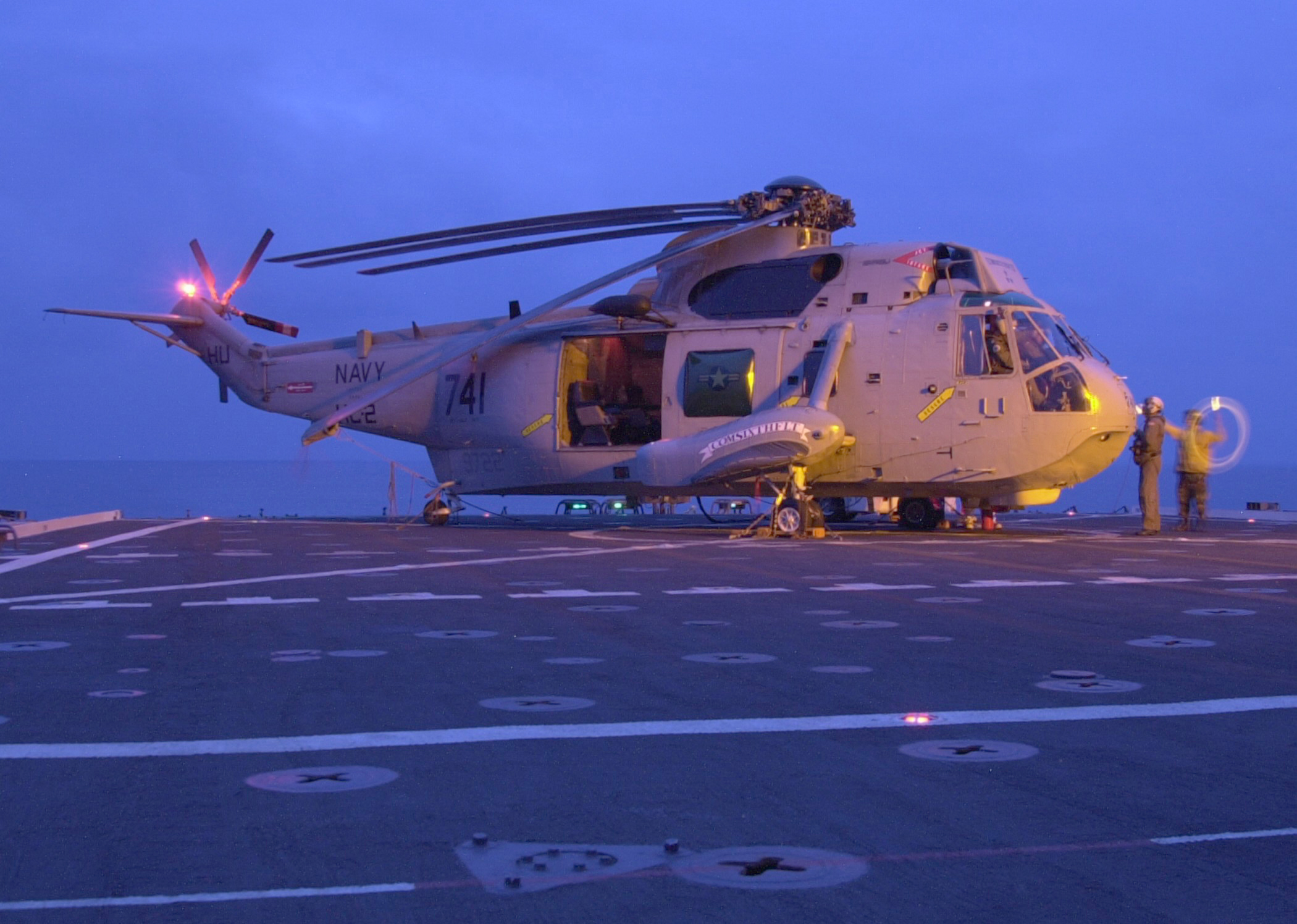 At sea aboard USS La Salle (AGF 3) -- A flight crew makes pre-flight checks on the Sixth Fleet flagship's helicopter "Ghost Rider" assigned to Helicopter Combat Support Squadron Two (HC-2). Night-time helo operations are conducted regularly to train flight crews for evening missions. U.S. Navy photo. (RELEASED)